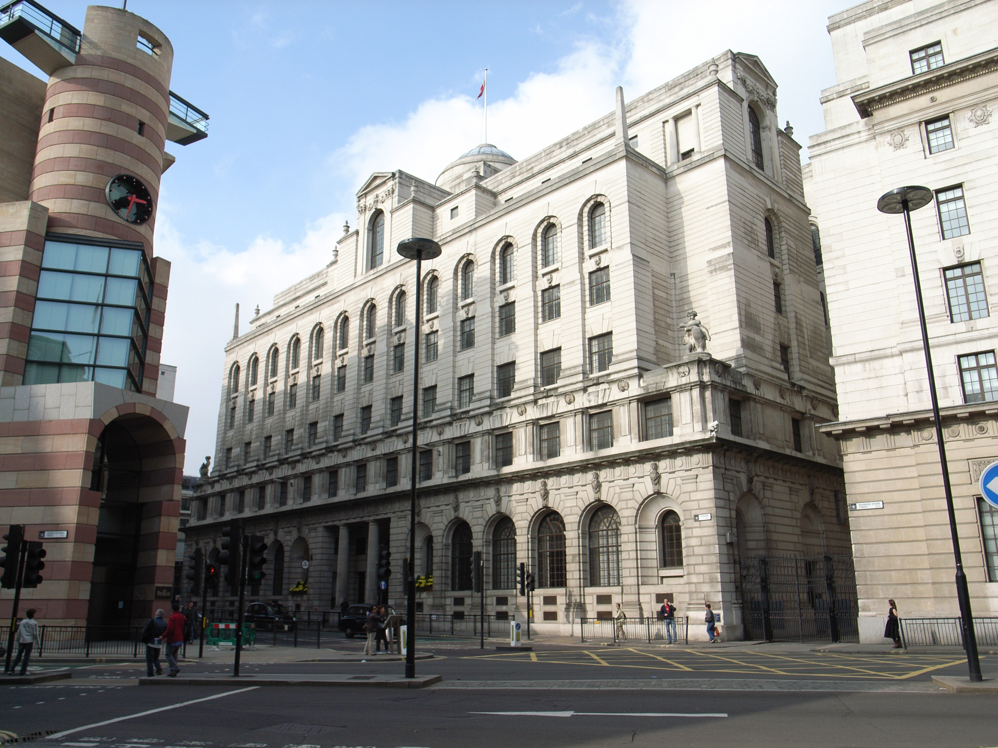 Midland Bank Head Office, London (1924-39), by Edwin Lutyens.